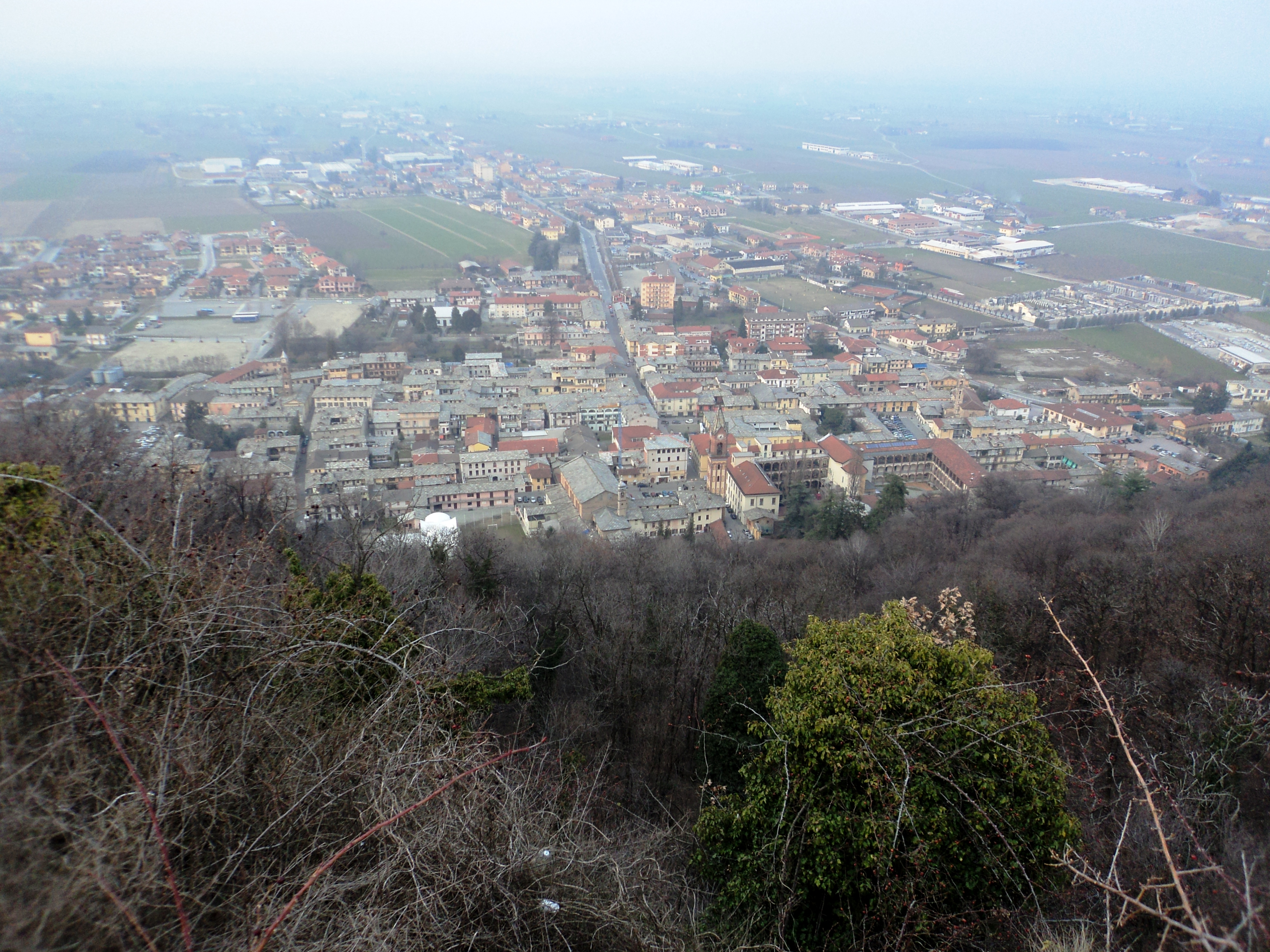 Cavour - Province of Turin - Piedmont - Italy